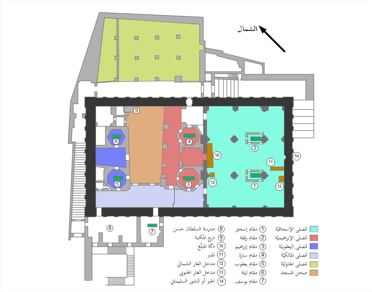 Ibrahimi Mosque Drawing